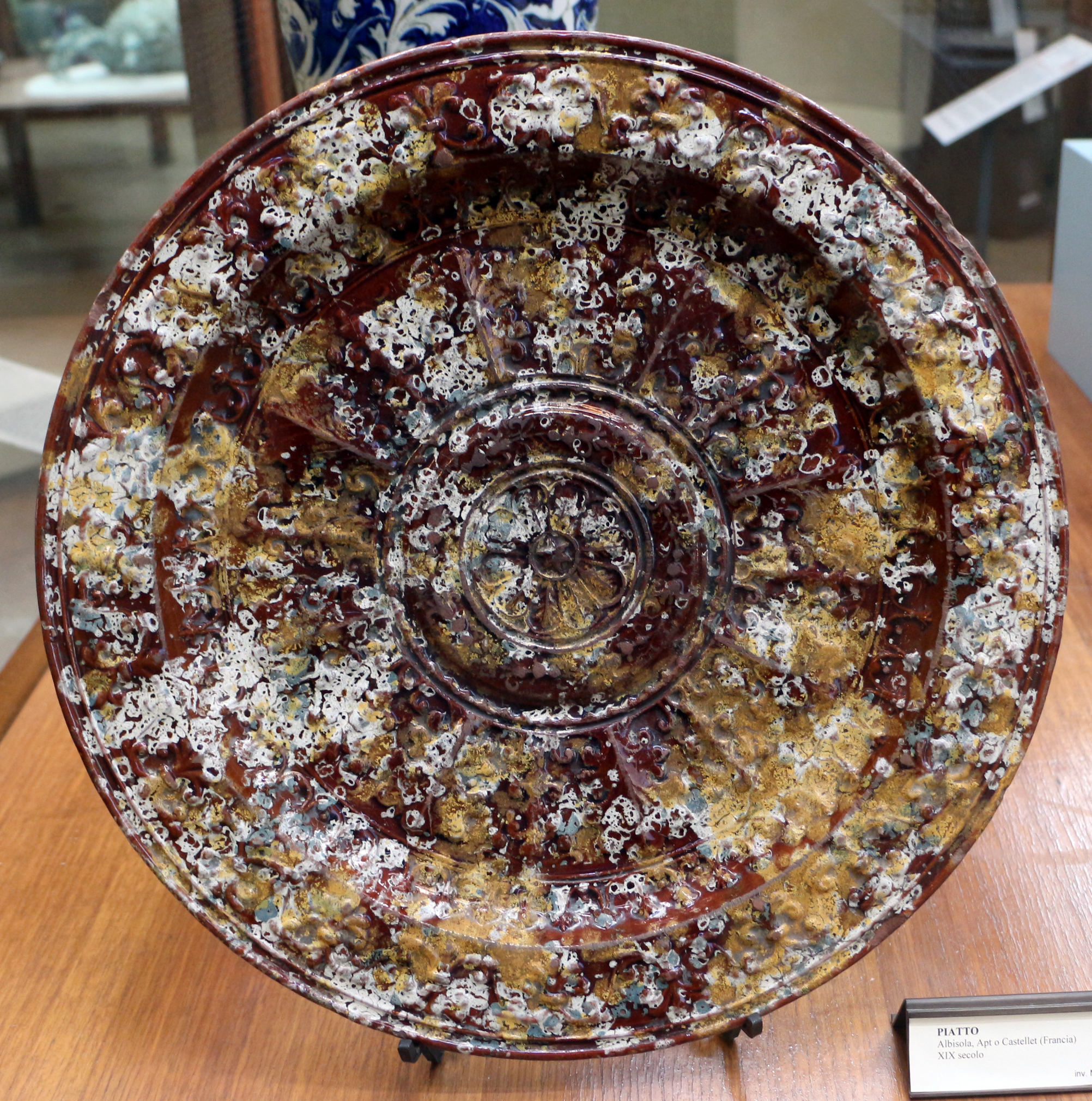 Raccolte d'arte applicate del Castello Sforzesco di Milano - Pottery